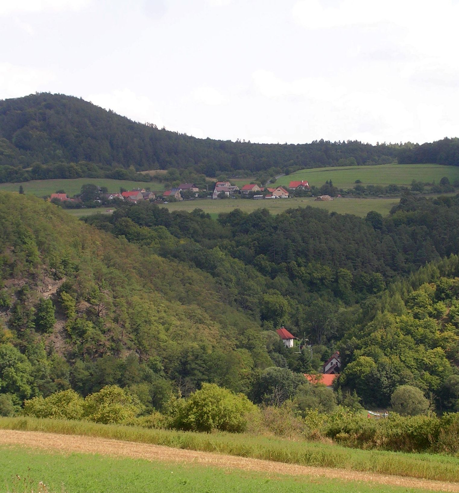 Branov, Rakovník District, Central Bohemian Region, the Czech Republic.